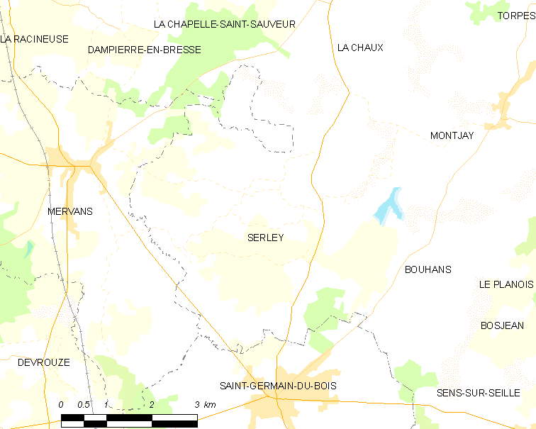 Map of French municipality